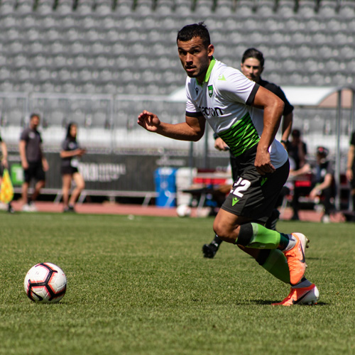 Rodrigo Gattas dribbles the ball on June 22, 2019.